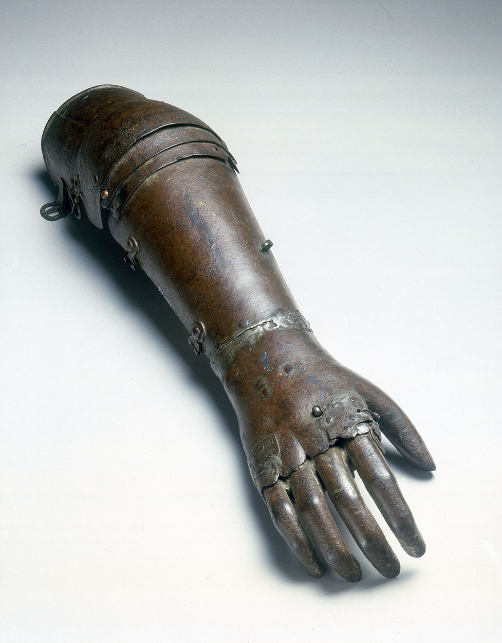 Artificial iron arm, once thought to have been owned by Gotz von Berlichingen (1480-1562), the German knight and adventurer who served with the Holy Roman Emperor Charles V against the Turks. Artificial limbs such as these were expensive items made by armourers, and they allowed wearers, who had lost a limb in combat, to continue with their fighting career. This example is believed to date from 1560-1600, but other examples of these arms have been recognised as later copies. Full view (palm down).